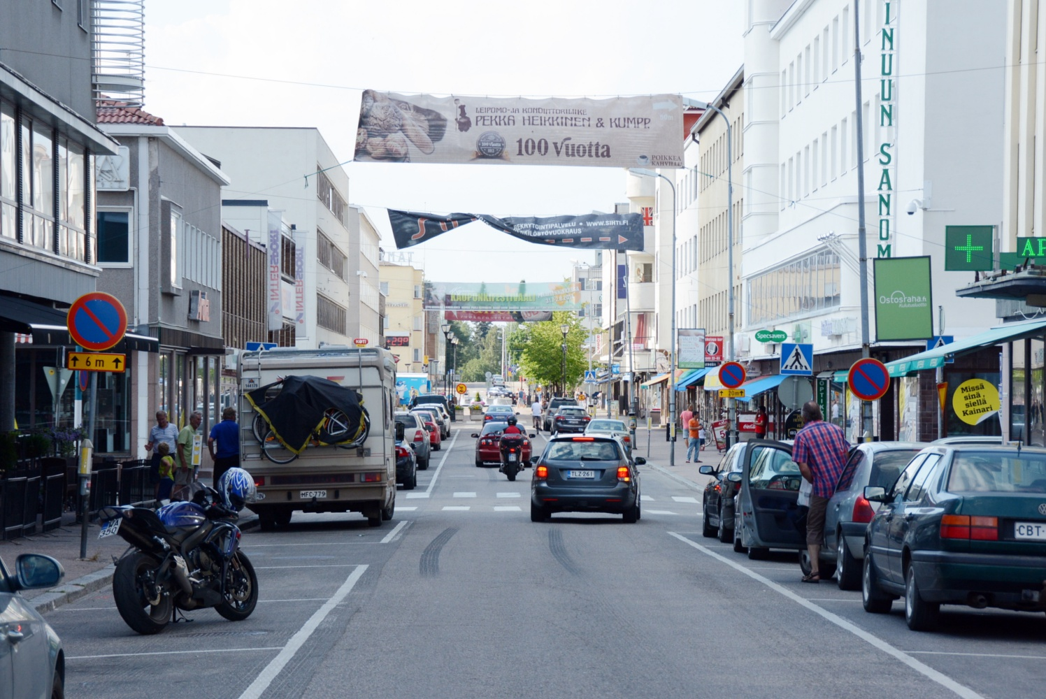 A view to Kauppakatu, the main street of Kajaani